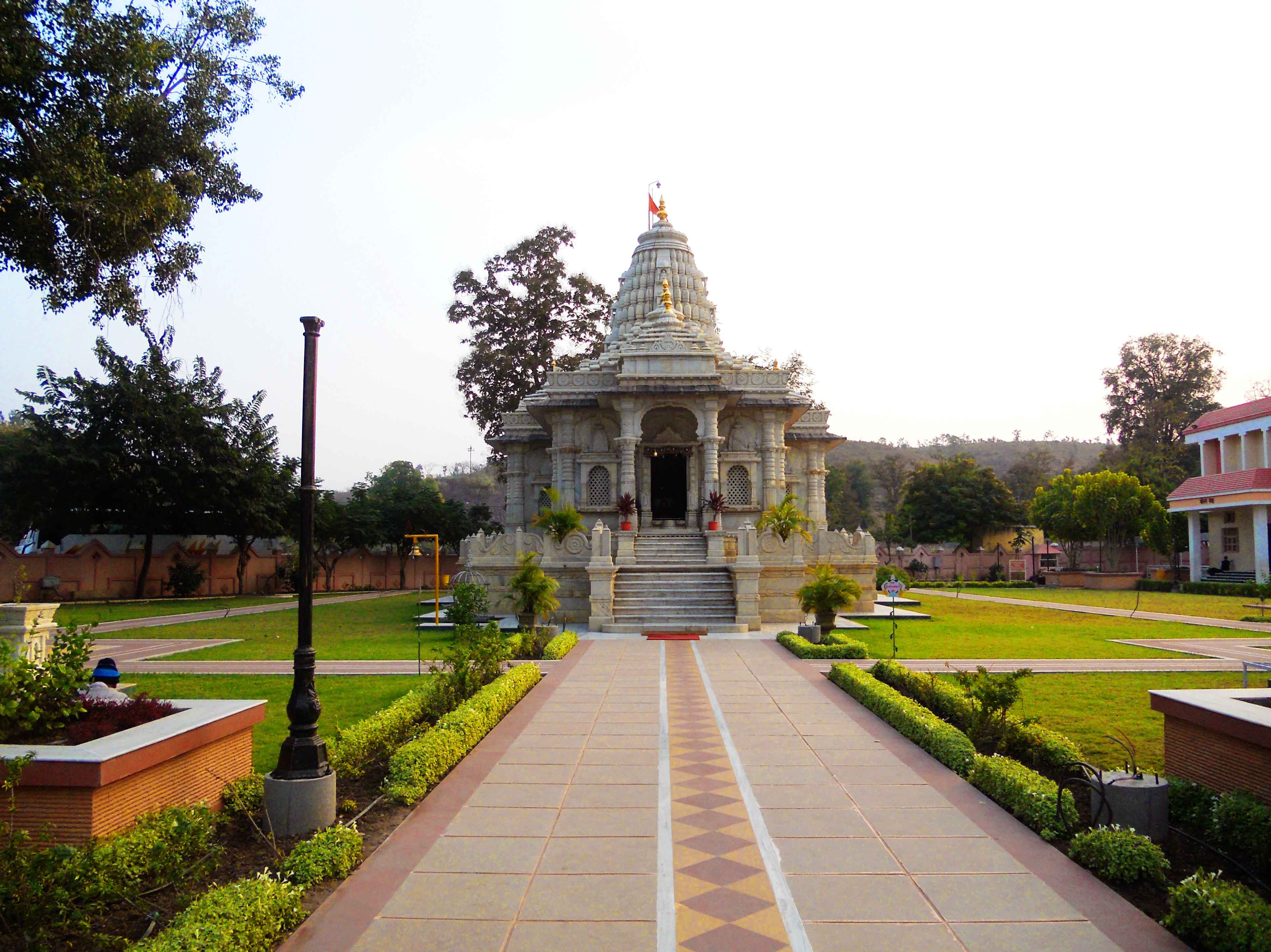 Gajanan Maharaj Mandir situated at Omkareshwar Jyotirlinga, Madhya Pradesh, India